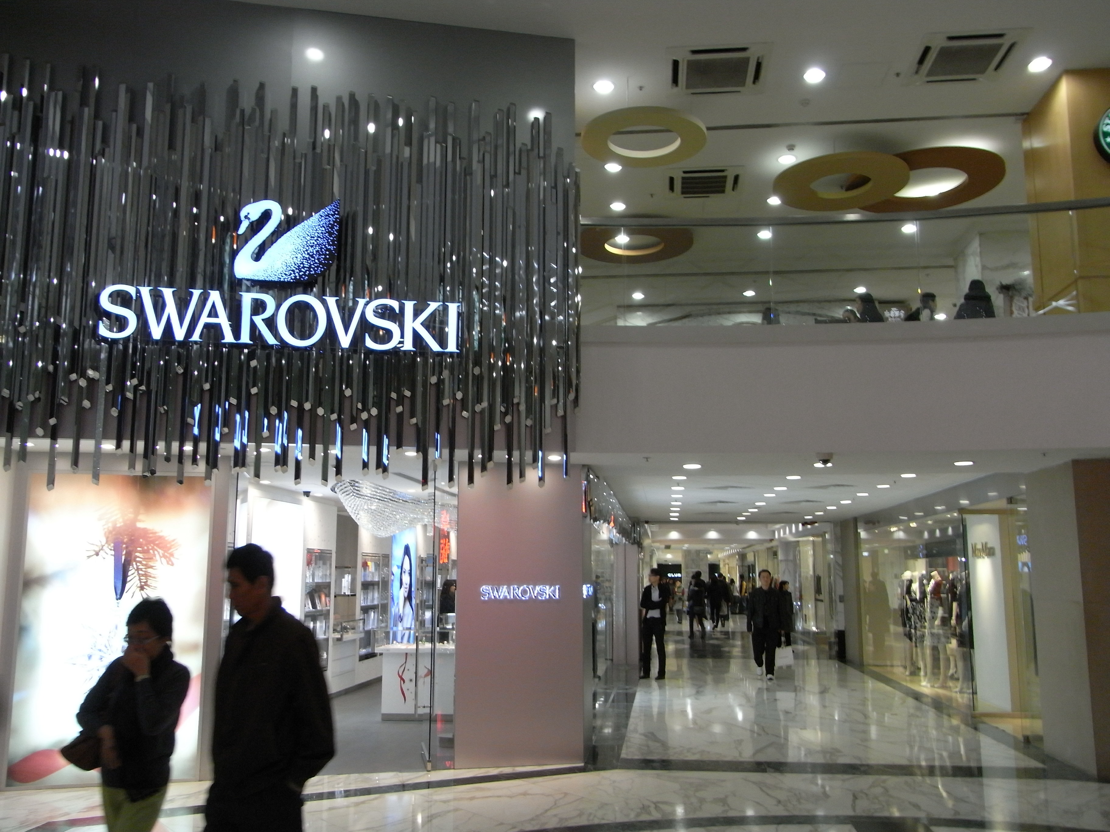 銅鑼灣名店坊商場